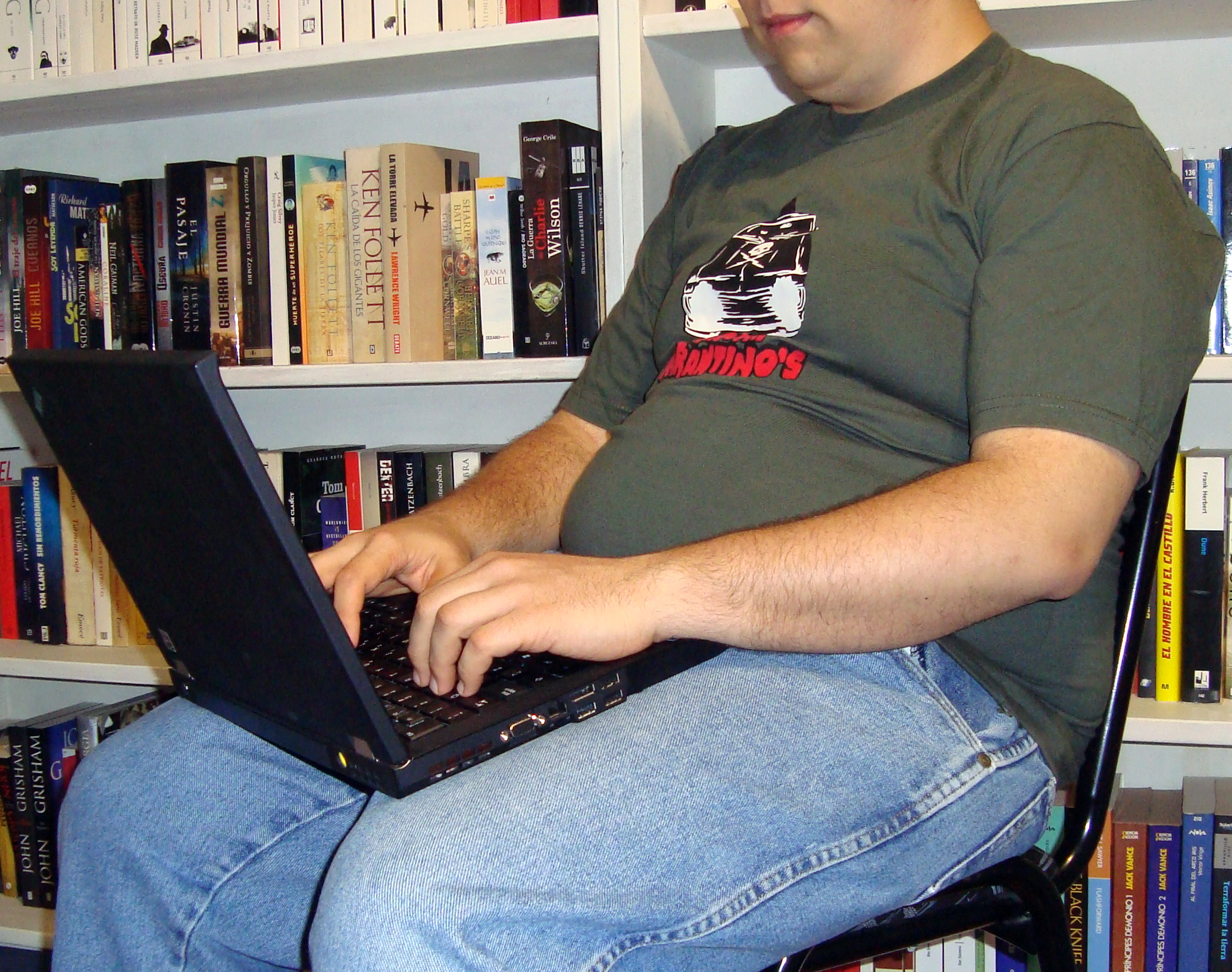 A young and overweight man working with his computer.